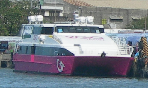 2GO Travel catamaran ferry to Bacolod on Iloilo River in Iloilo City